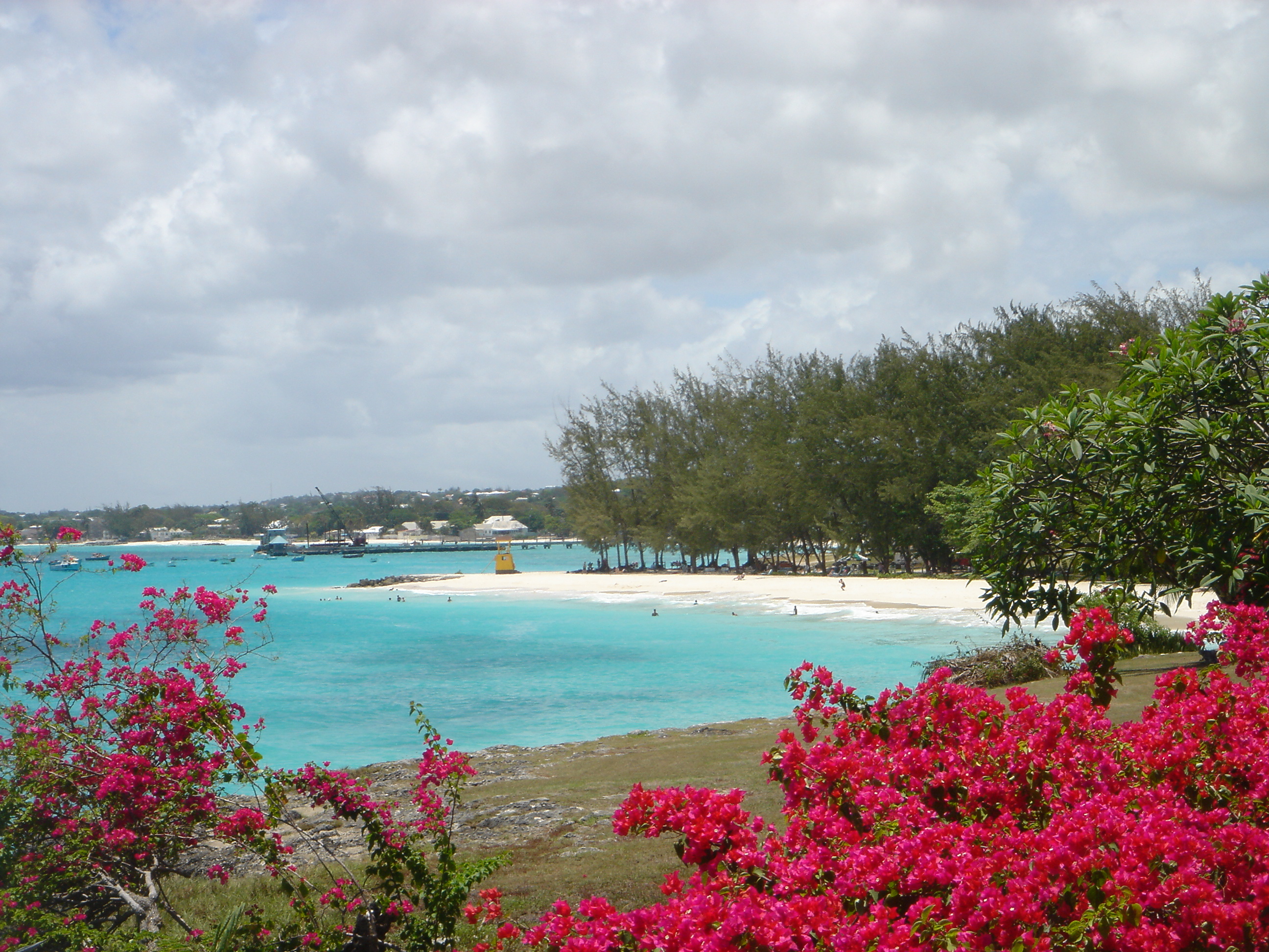 Miami Beach by Oistins, Barbados - viewed from Enterprise Coast Road